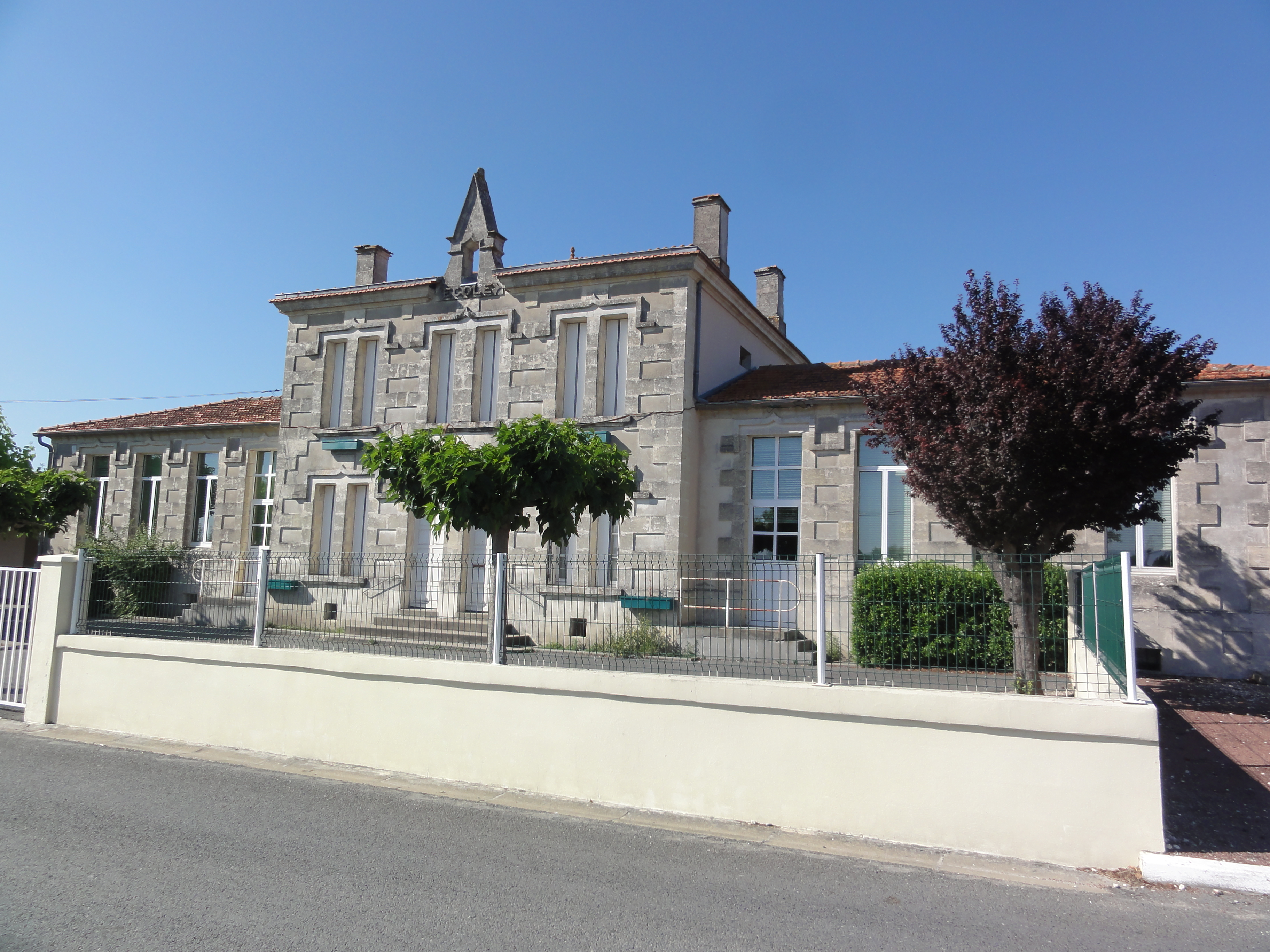 Saint-Genès-de-Blaye (Gironde) mairie